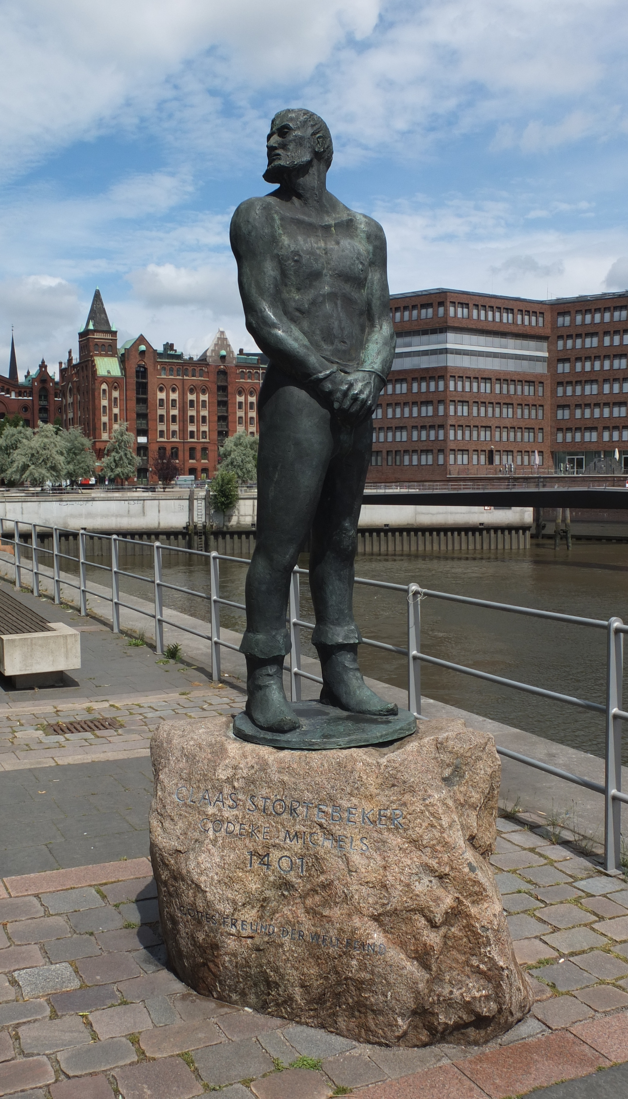 Klaus Störtebeker statue in Hamburg, creator: Hansjörg Wagner